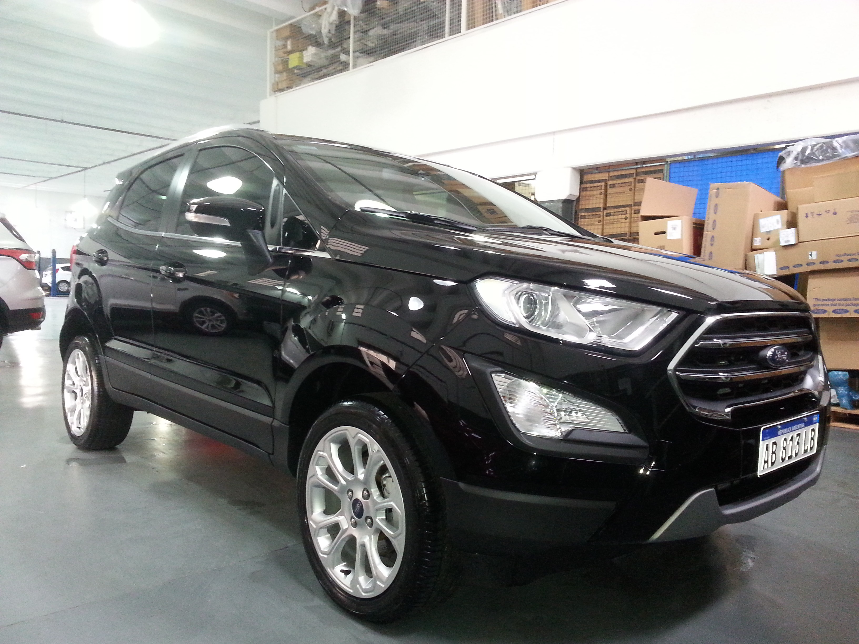 Ford EcoSport 2017